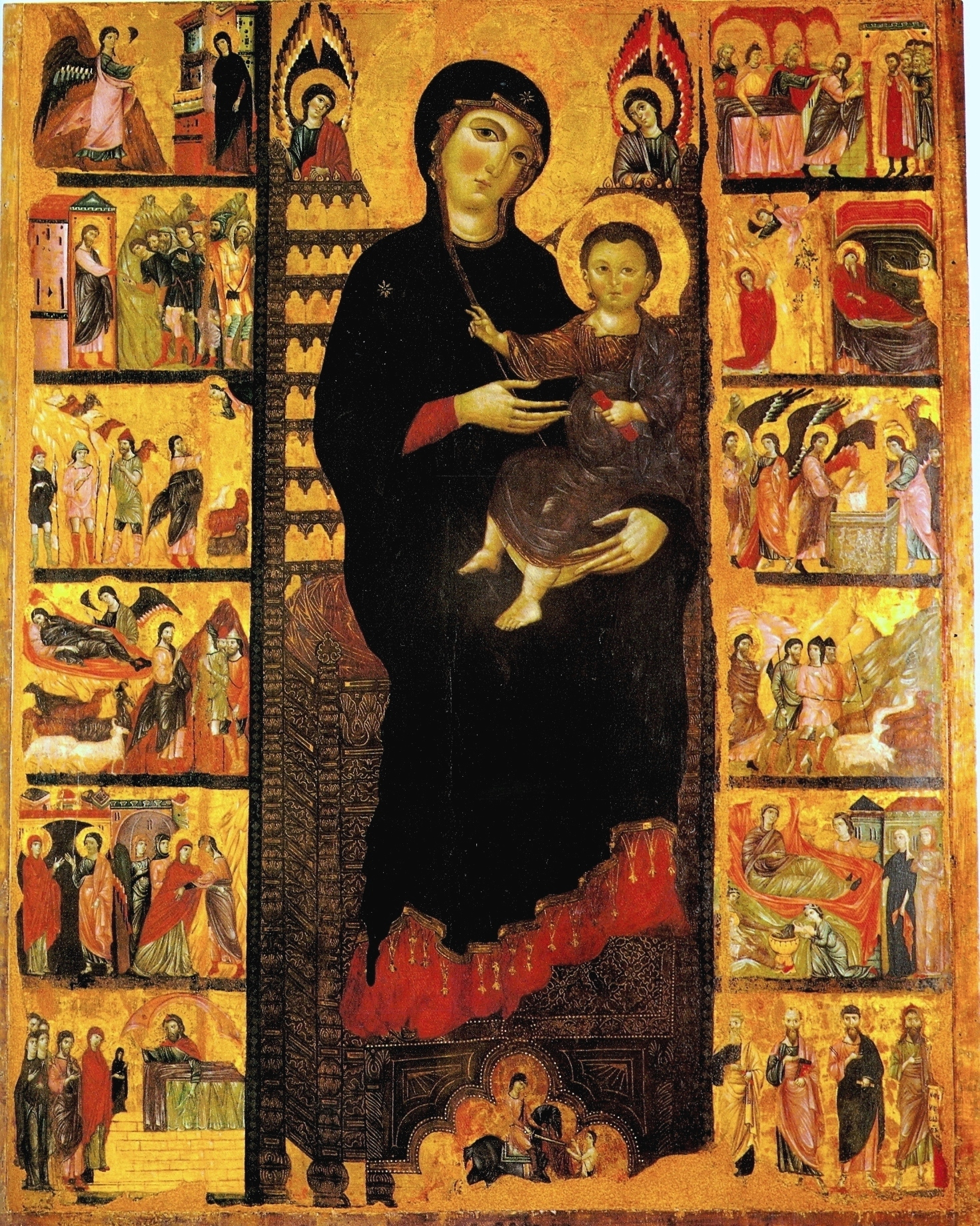 Master_ofi_san_martino_Madonna_with_Child_san_matteo_pisa